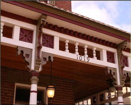 Restored Victorian Porch in 1000 Block